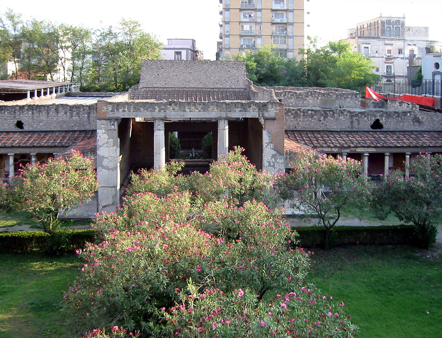 The Villa Poppaea seen from the garden. Oplontis, Italy.